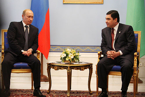 TEHRAN. With the President of Turkmenistan, Gurbanguly Berdymukhammedov.